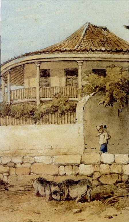 Watercolour of a house on the Macao waterfront that was owned by James Matheson, and was probably where Lord Napier stayed in 1834.